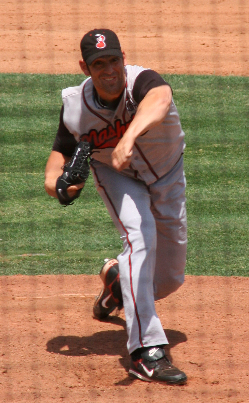 Zach Jackson, a pitcher for the minor league Nashville Sounds, having just pitched the ball during a game at Cashman Field on May 11, 2008